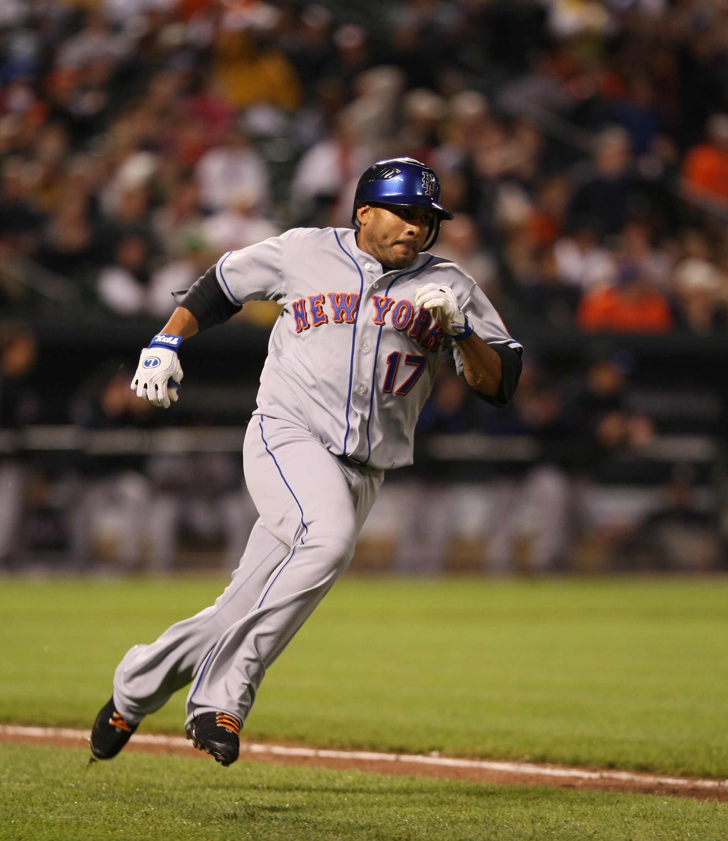 Fernando Tatís in 2009.